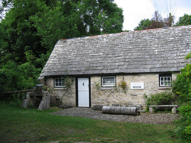 Langton Matravers Museum This fascinating local museum includes a mock-up of a quarrymine.